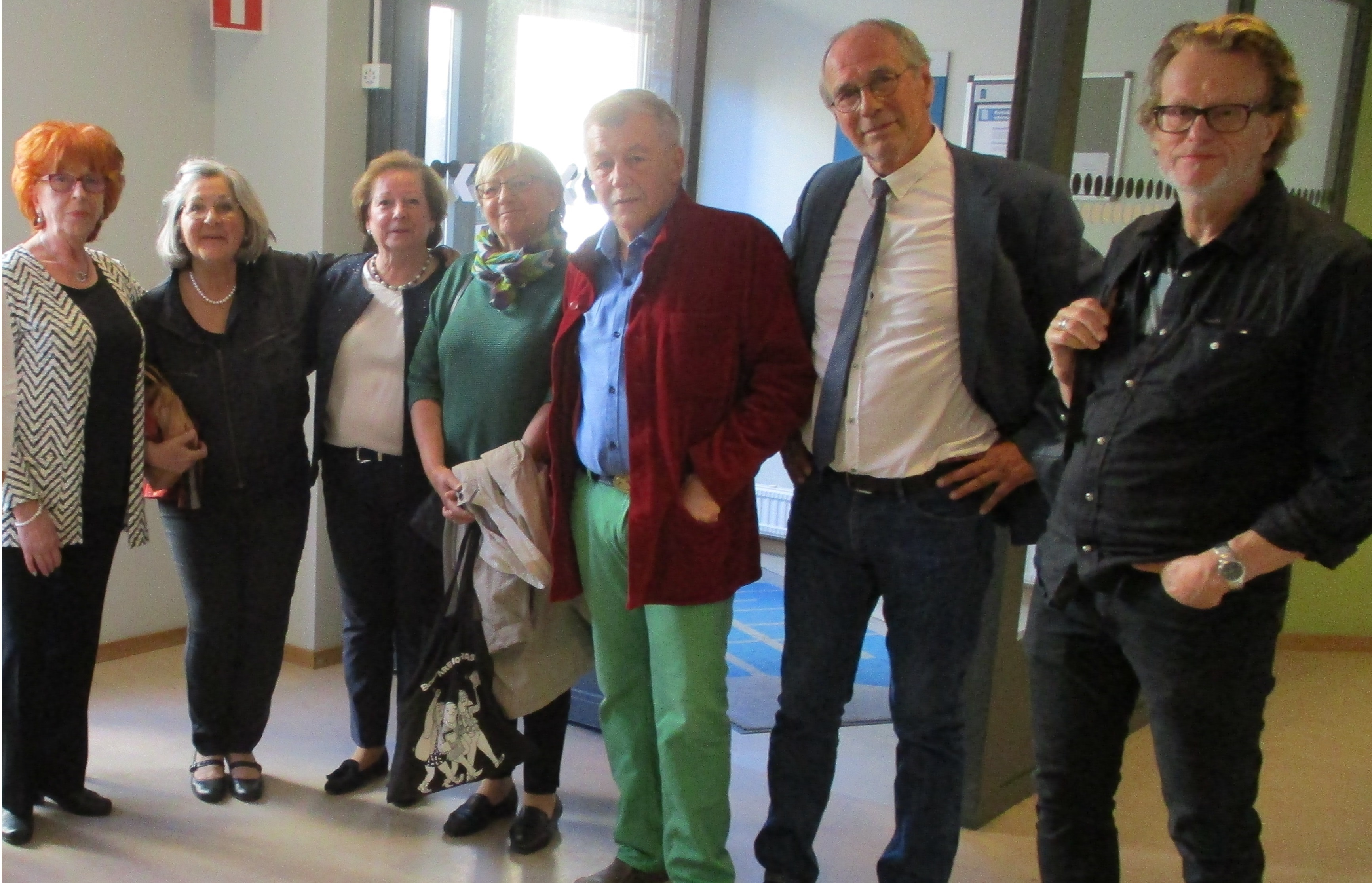 50th anniversary group of class AIII3a of Mörby Junior College of Danderyd, Sweden (l-r: Mia Adolphson, Eva Söderqvist, Catharina Waldenström Feldreich, Eva Bergman, Nils-Erik Humlesjö, Michael Levy Flygare & Lasse Granestrand), as released by image creator RistessonPlace: Frejgatan 61 A, Stockholm, Sweden